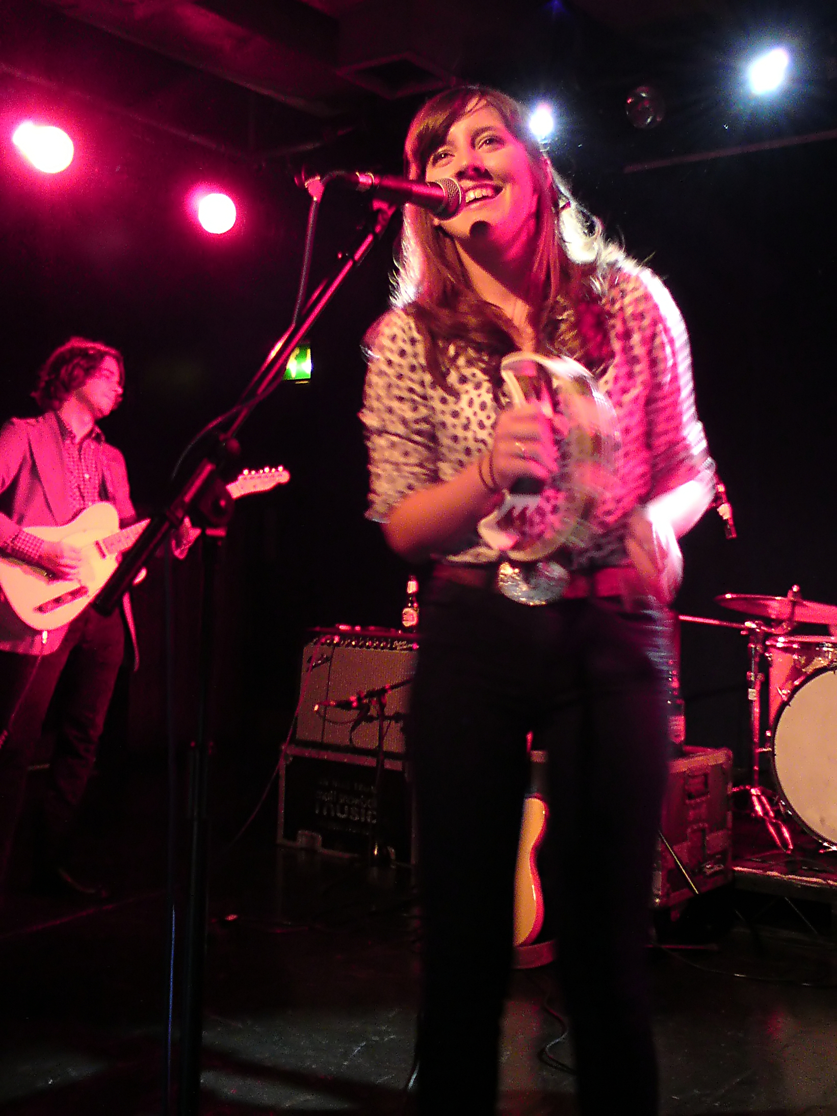 Singer/songwriter Caitlin Rose performing on stage